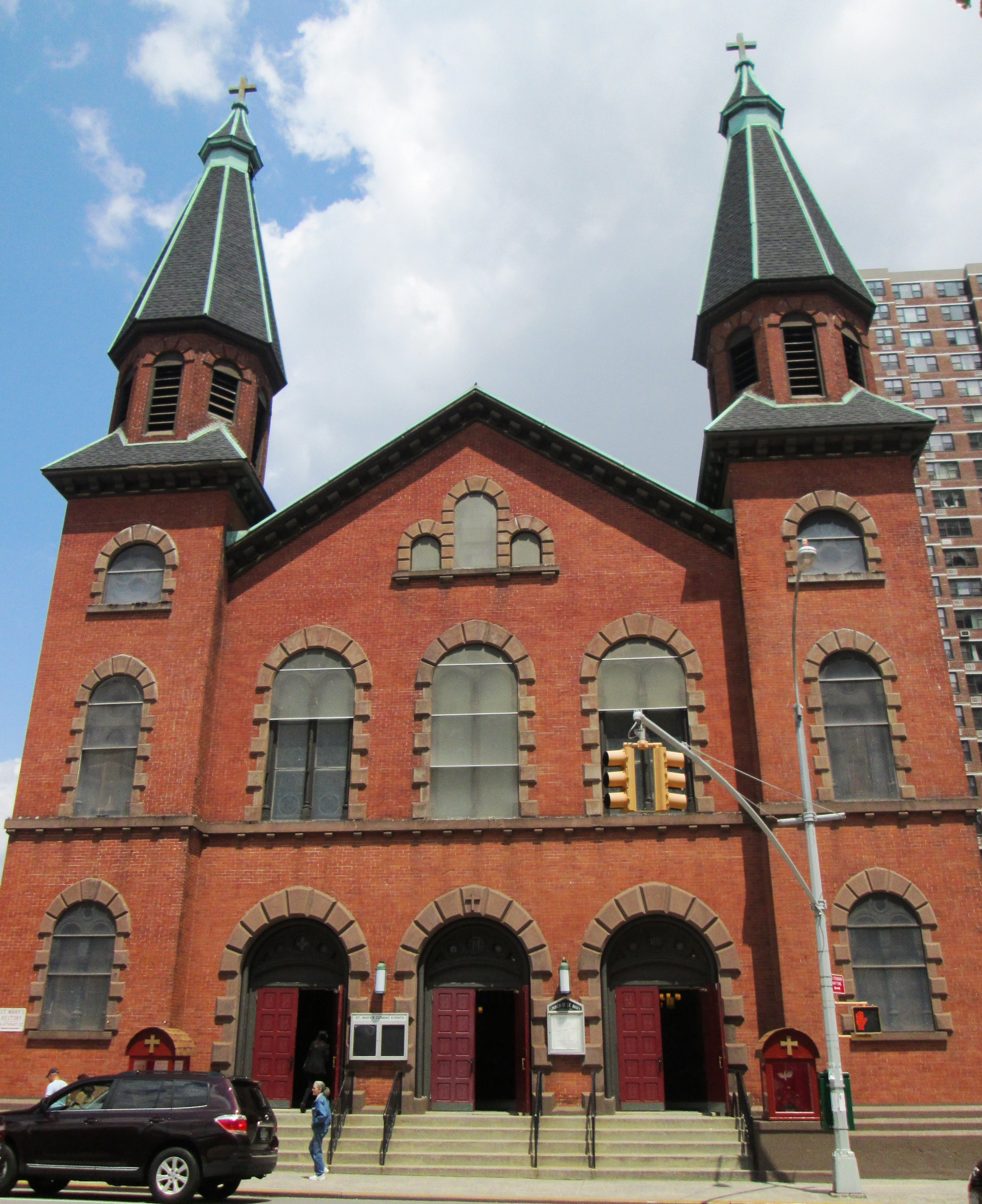 St. Mary's Roman Catholic Church at 438 Grand Street between Pitt and Attorney Streets in the Lower East Side neighborhood of Manhattan, New York City was built in 1832-33, and was enlarged and had its current facade added in 1864 by Patrick Charles Keely. Additional changes were made by Lawrence O'Connor in 1871. It is the second oldest Roman Catholic structure in the city, after St. Patrick's Old Cathedral, which was built in 1815. The original facade was in the Greek Revival style, but Keely's new red-brick facade with twin spires is in the Romanesque Revival style. (Sources: AIA Guide to NYC (5th ed.) and NYCAGO)